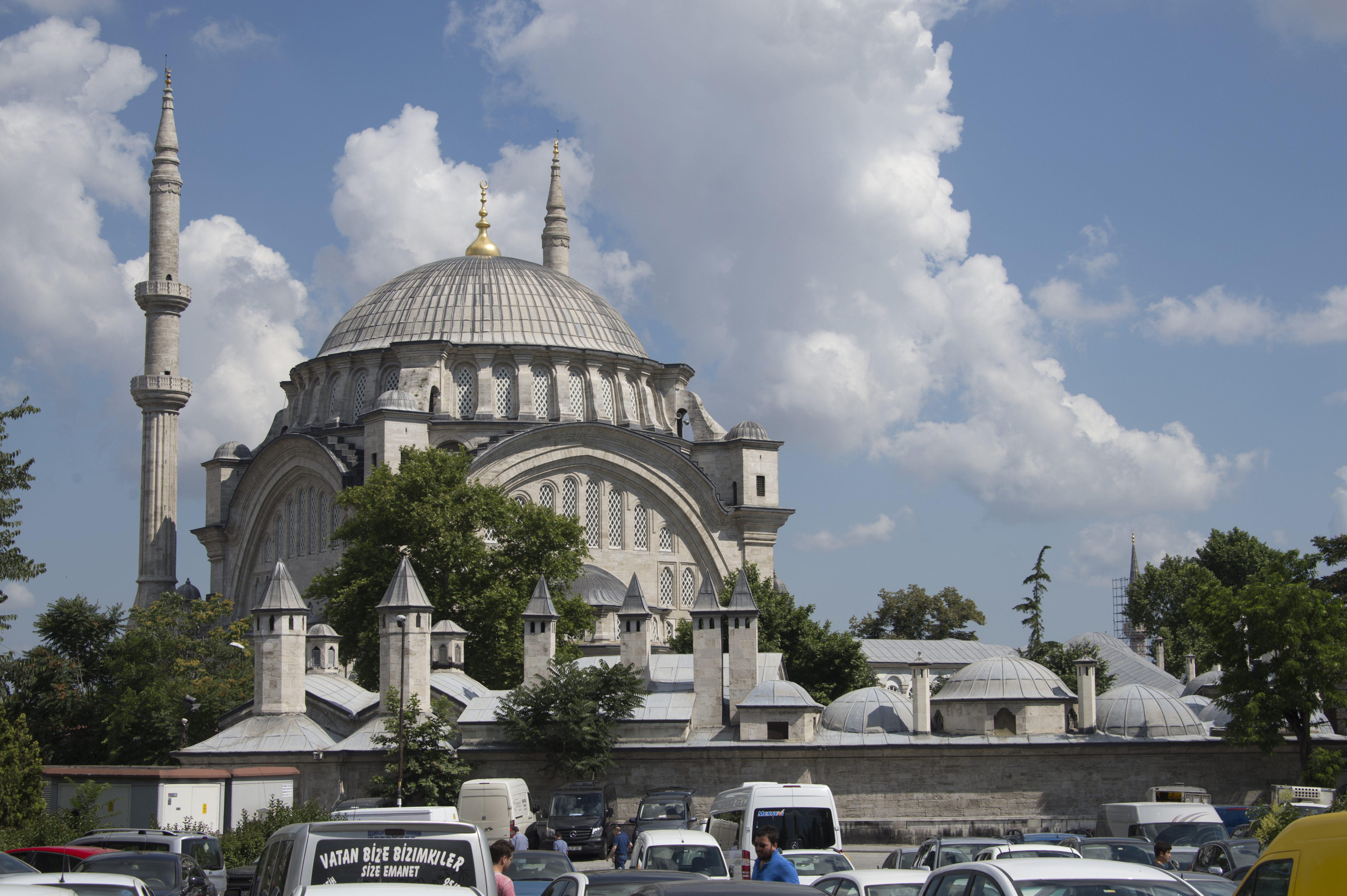 built by a Greek architect, Simon, who in the opinion of Strolling Through Istanbul (Redhouse, 1989) produced "a failure, but a charming one". I fell for its spell ages ago, not the least because crossing its awkwardly formed "shortcut" from the Covered Market side to the exit at the other side provides a short moment of rest in the busy city. If you want some more rest, the mosque is spacious and quiet. The mosque was begun by Sultan Mahmut I in 1748 and finished by his brother and successor, Osman III in 1755.